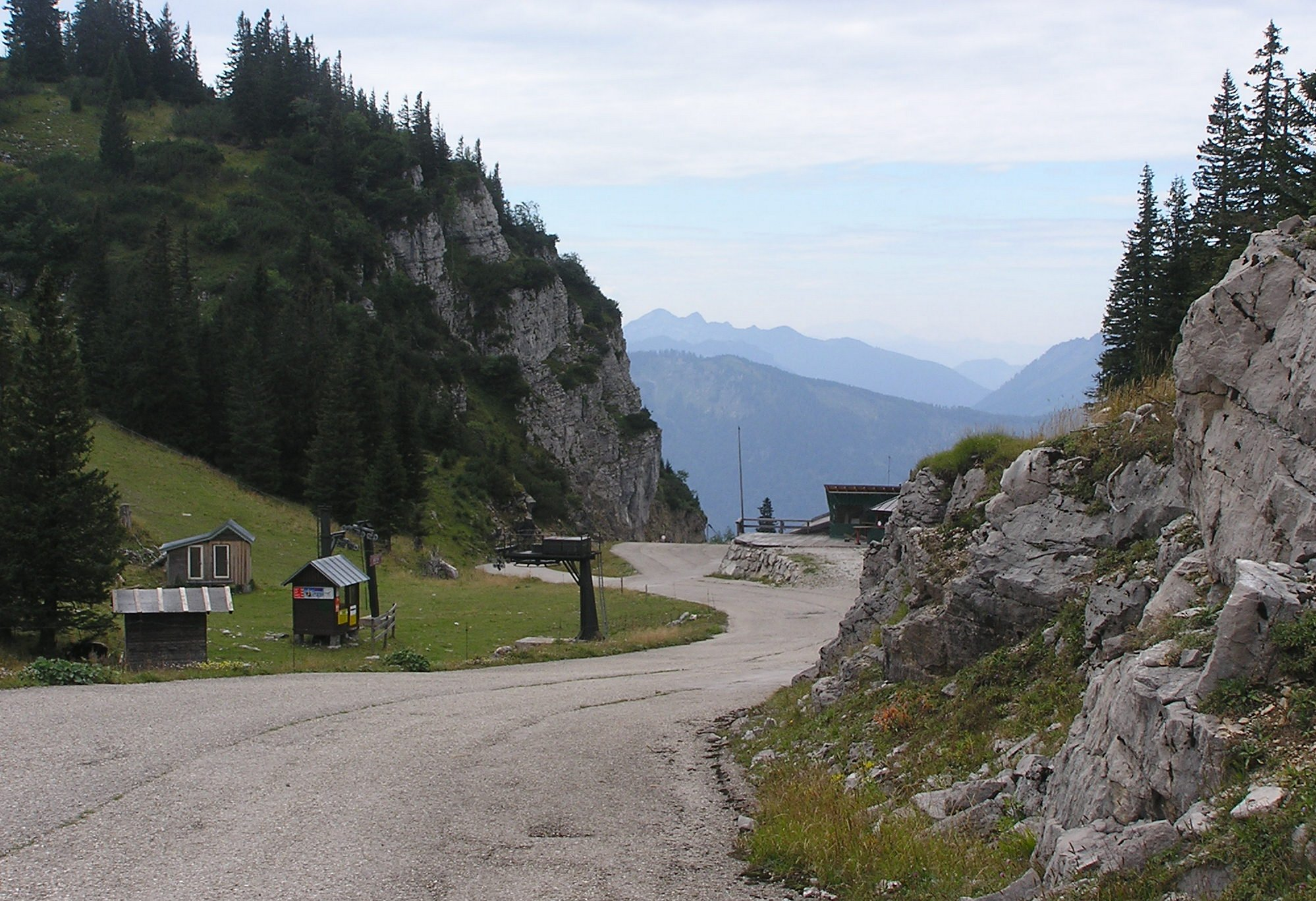 At the Kasbergalm road, Upper Austria, north of the Spitzplaneck mountain